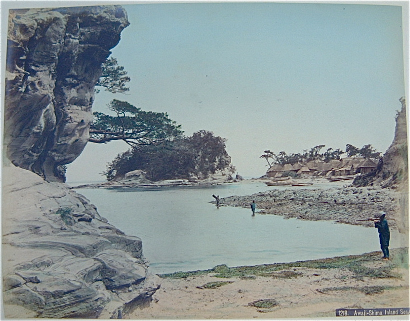 Hand colored albumen print by Kusakabe Kimbei